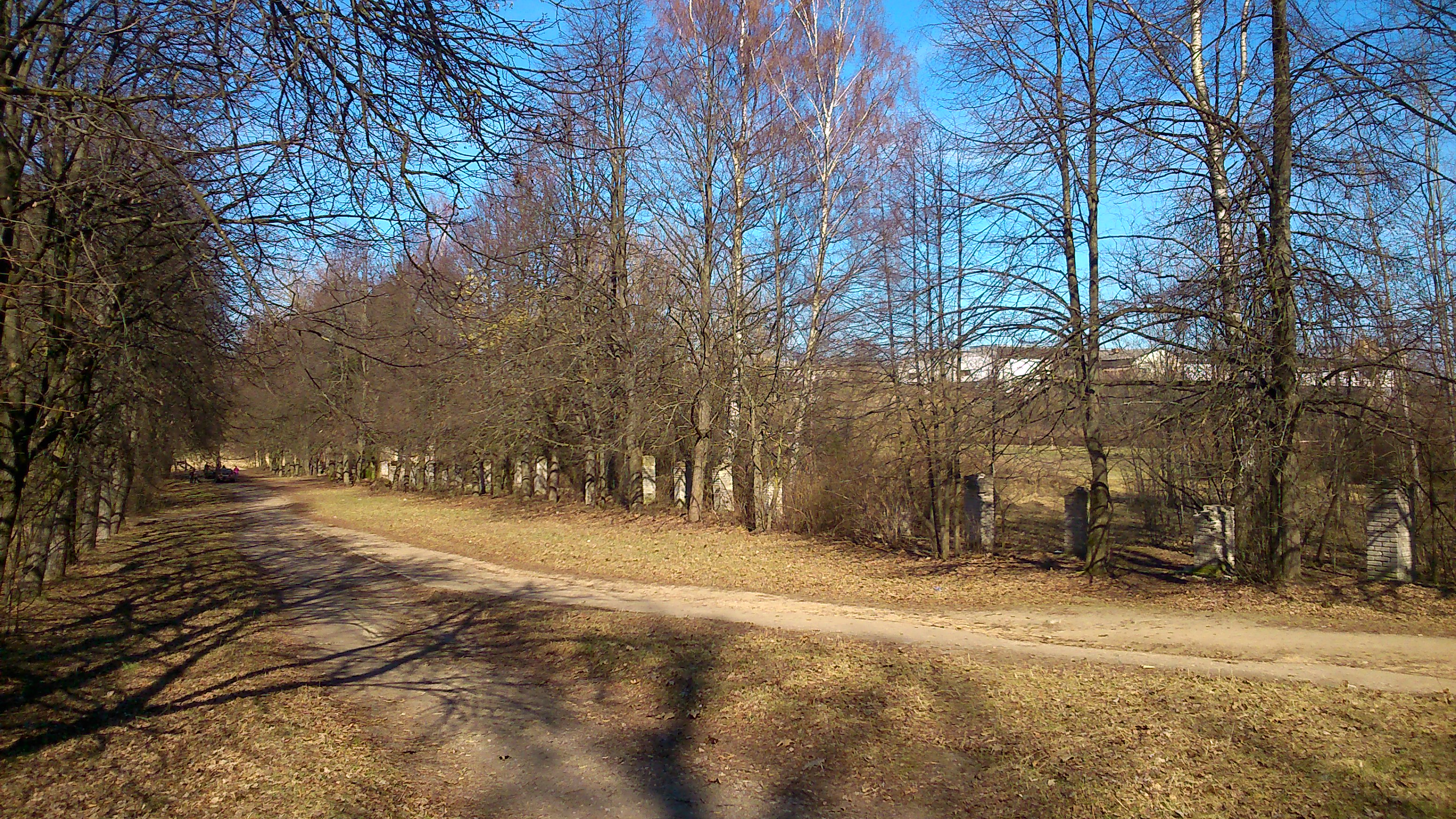 Naujoji Vilnia Park